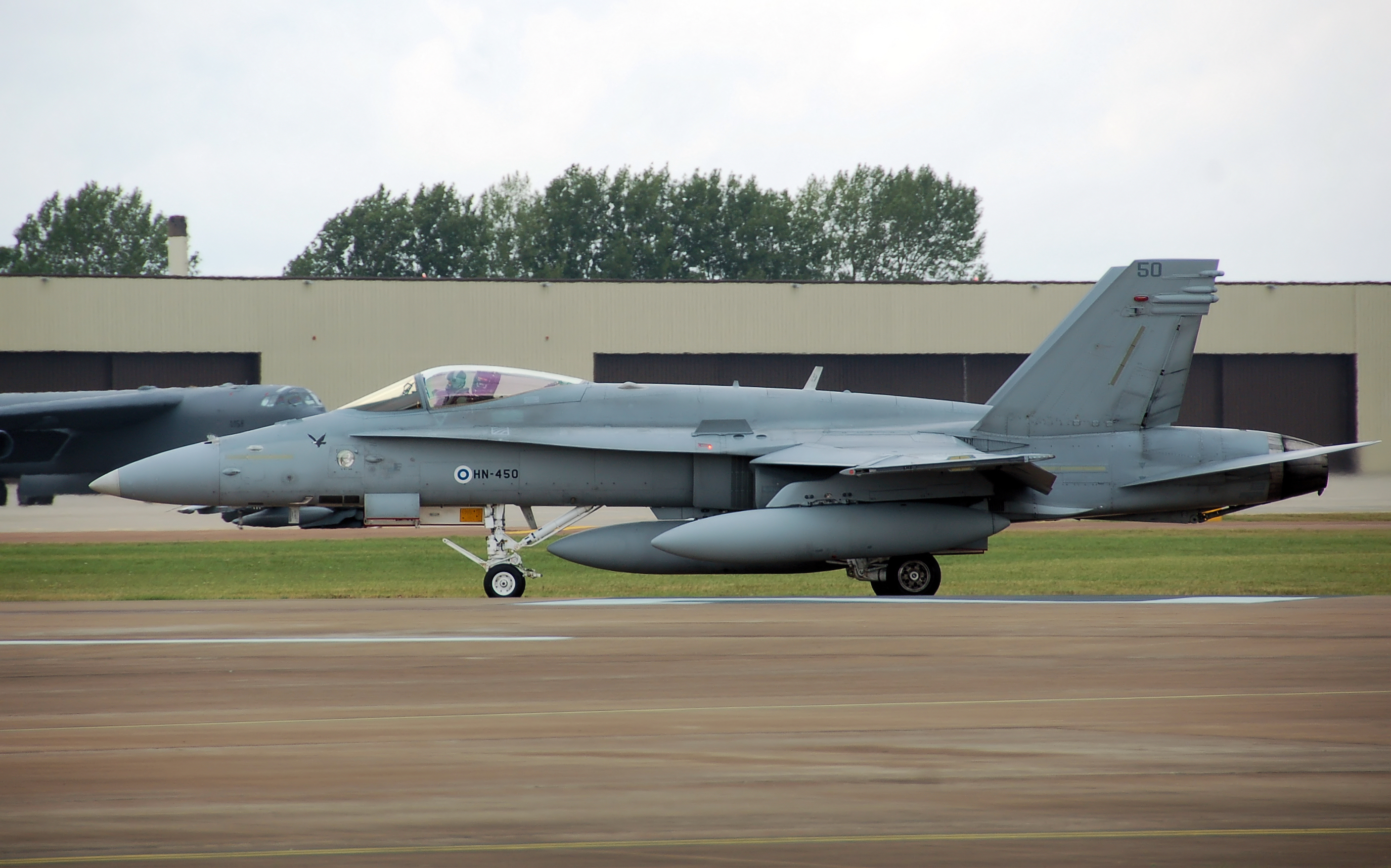 Finnish Air Force F-18C Hornet (code HN-450) starts its takeoff run at the 2009 Royal International Air Tattoo, Fairford, Gloucestershire, England.